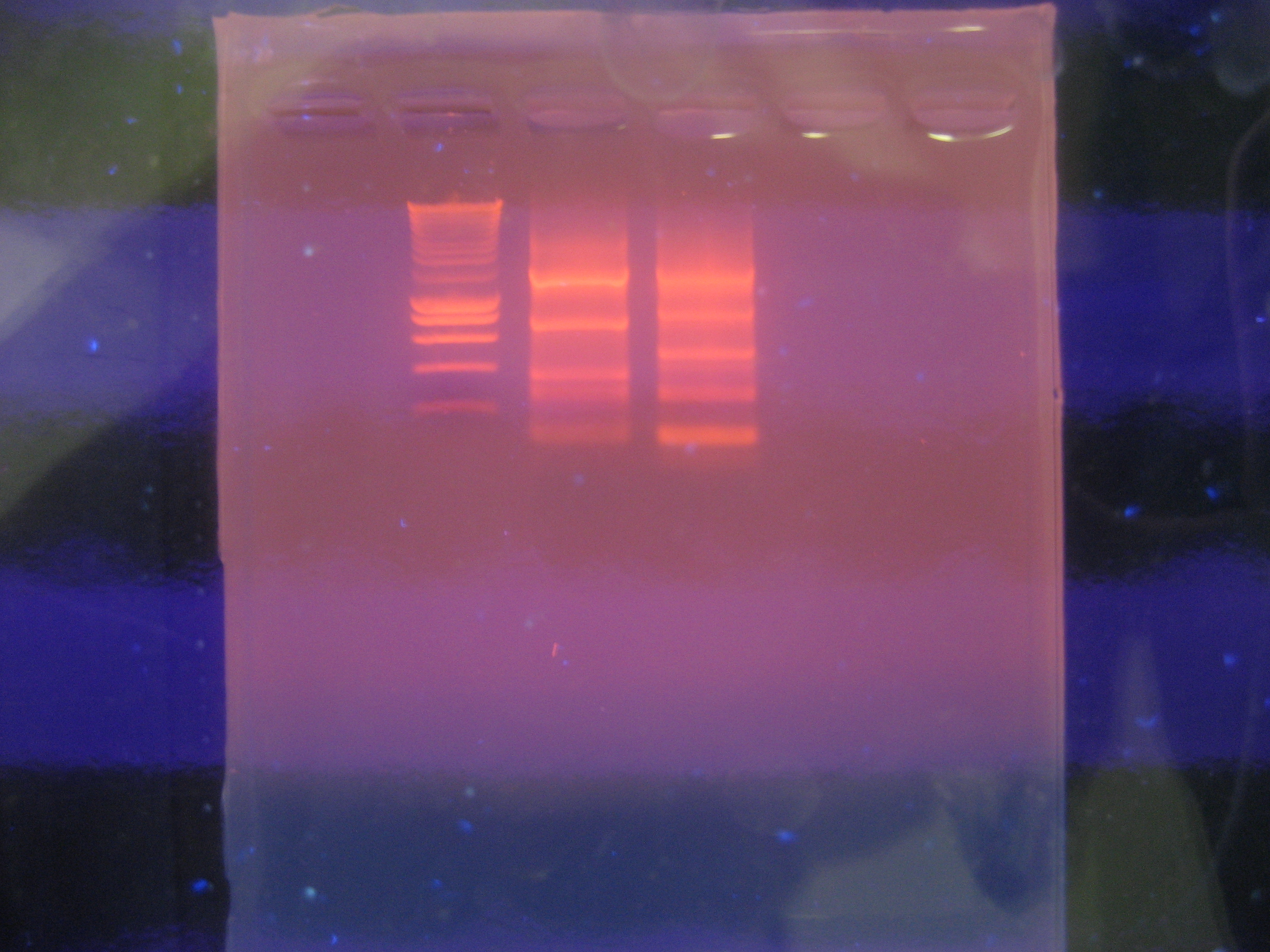 A DNA agarose gel on a UV lightbox.